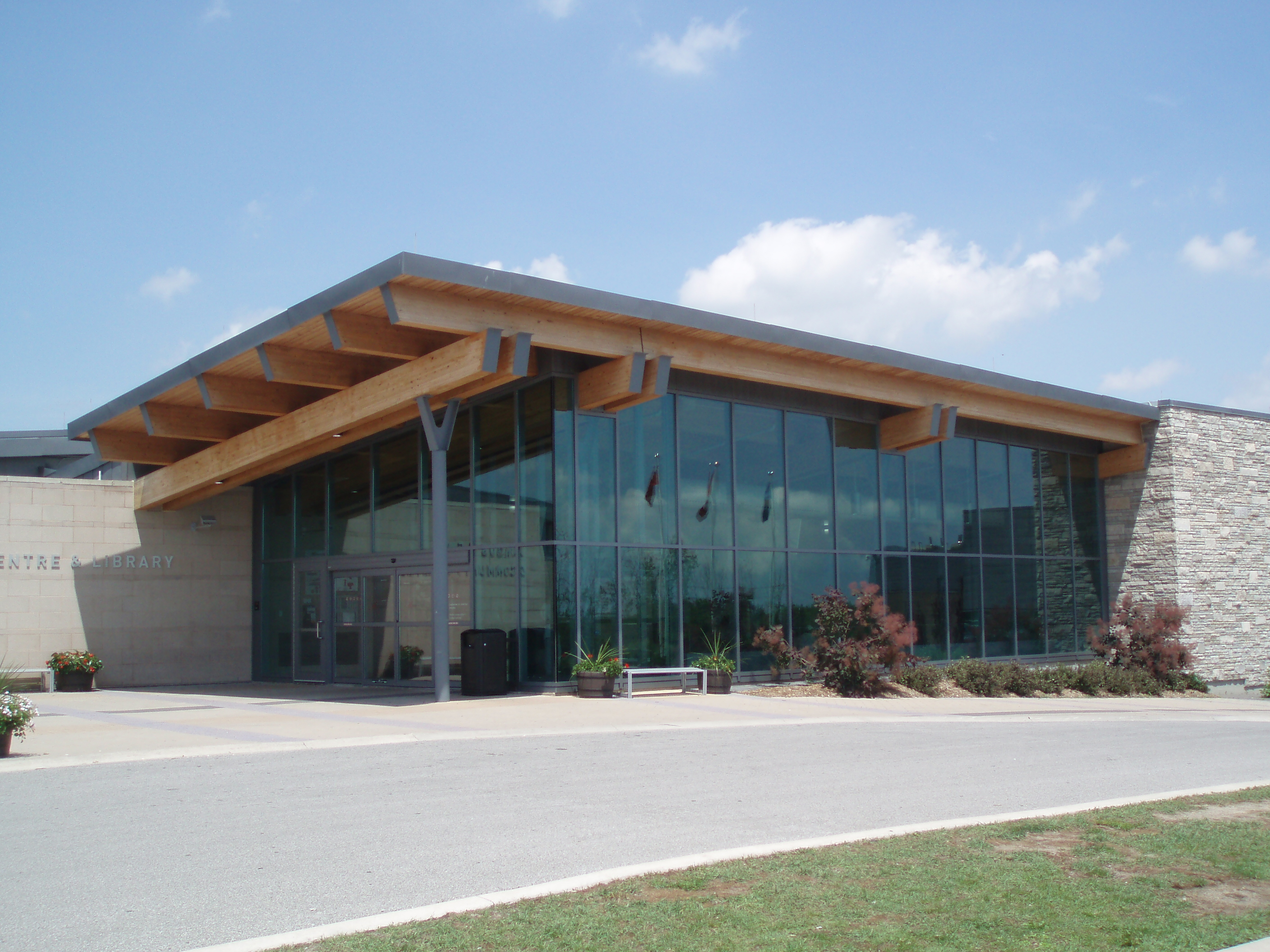 Angus Glen Community Centre at Markham, Canada